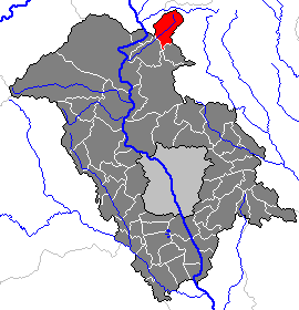 This map shows the area of the Gemeinde (municipality) Tyrnau in the Bezirk (district) Graz-Umgebung, Styria, Austria.